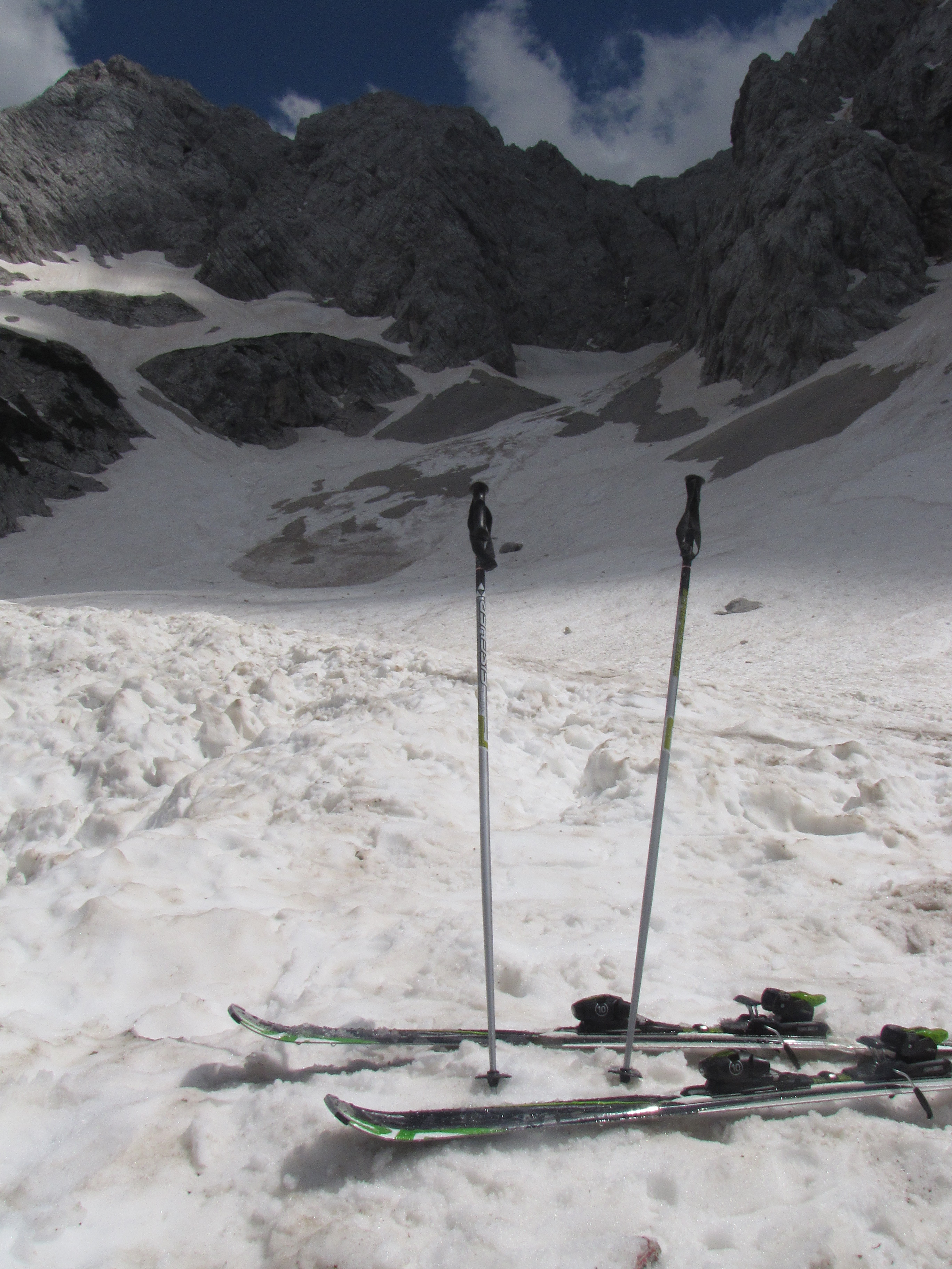 Summer skiing at Skuta Glacier.